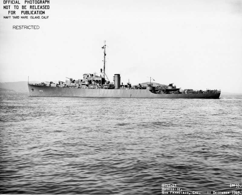 USS Tacoma (PF-3) Off San Francisco, 11 December 1943. She was at Mare Island for repairs from 16 June 1944 to 10 October 1944 and was in dry dock #2 from 23 - 26 June 1944. U.S. Navy Photo 8157-43 Category:Tacoma, Washington